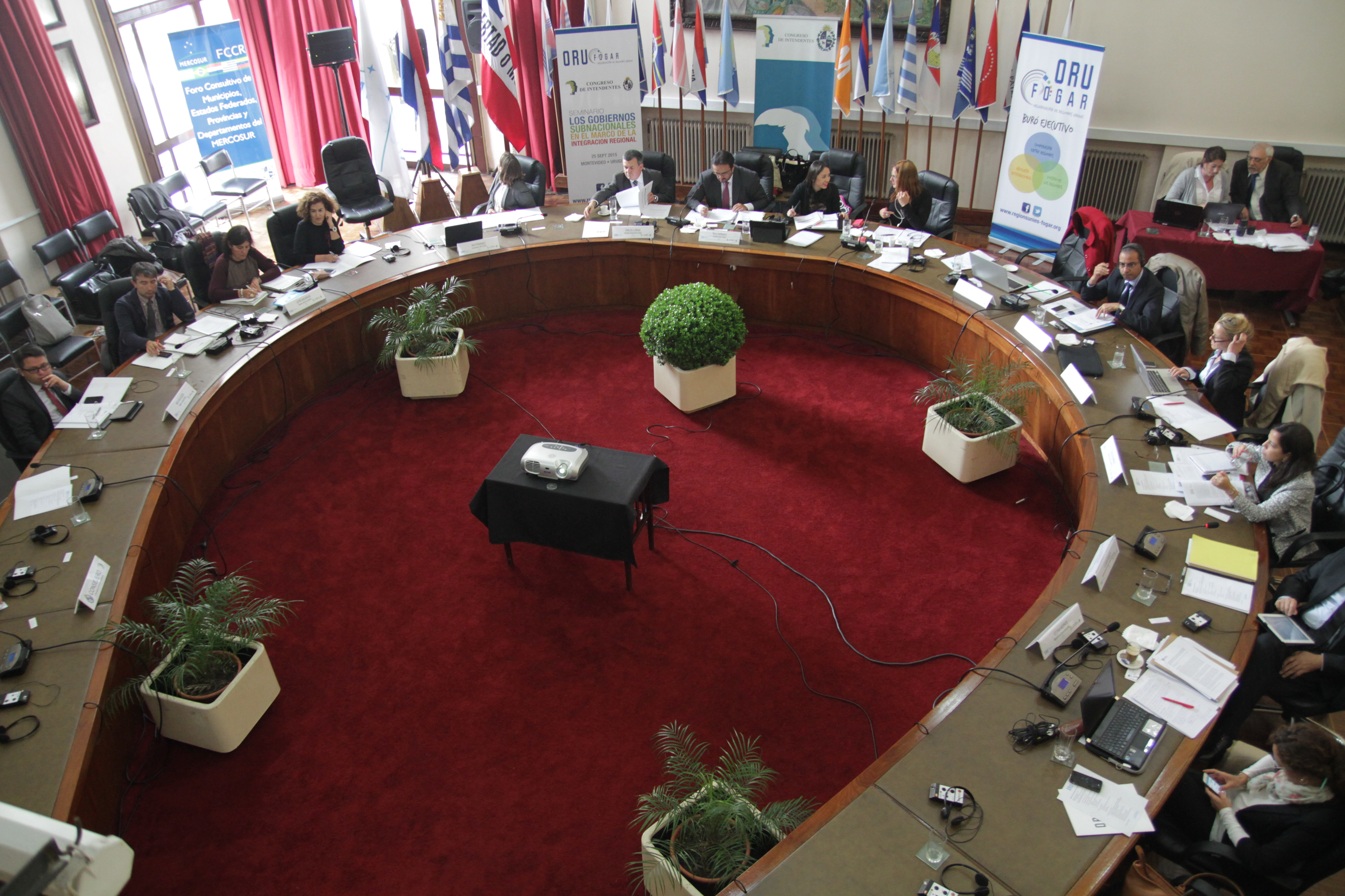 ORU-FOGAR’s Executive Bureau held in Montevideo, Uruguay, in September 2015